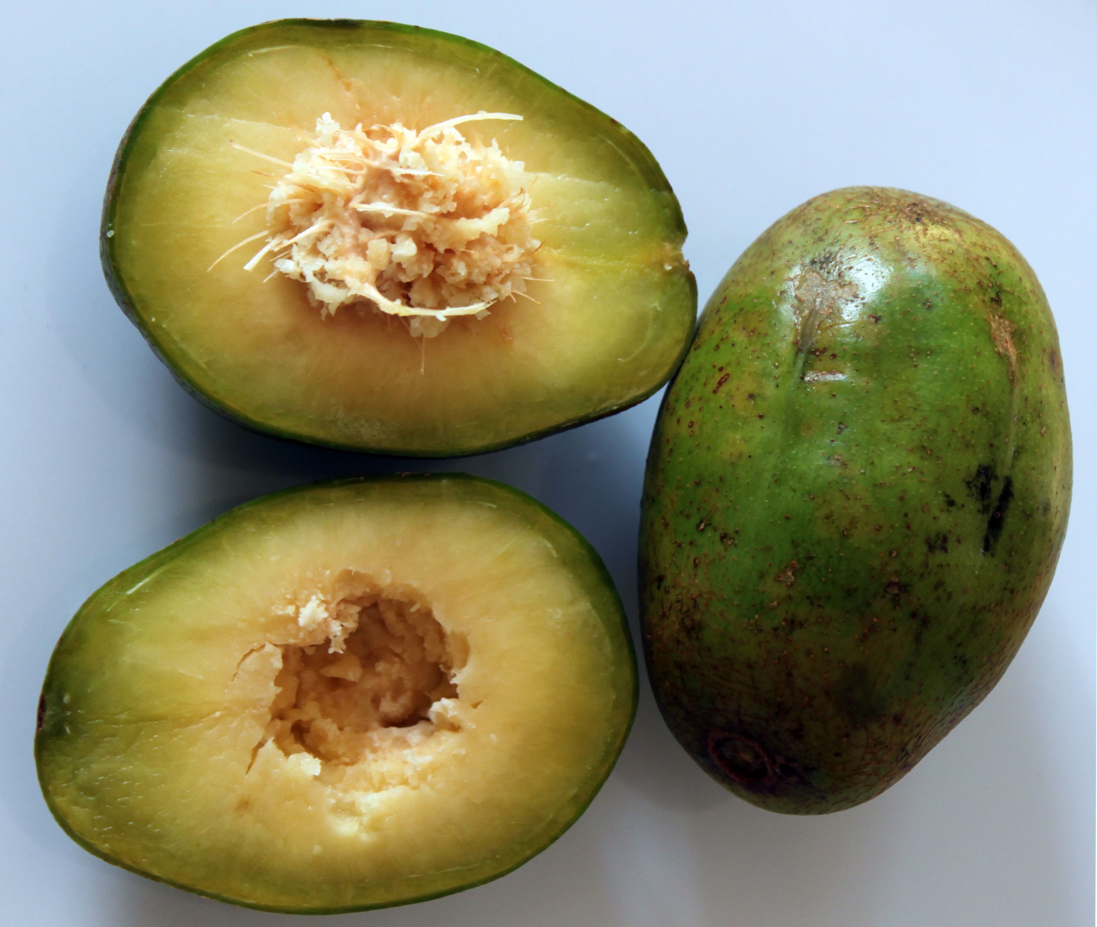 Polynesian-plum (Spondias dulcis), bought at Dong Xuan Center, Berlin, Germany